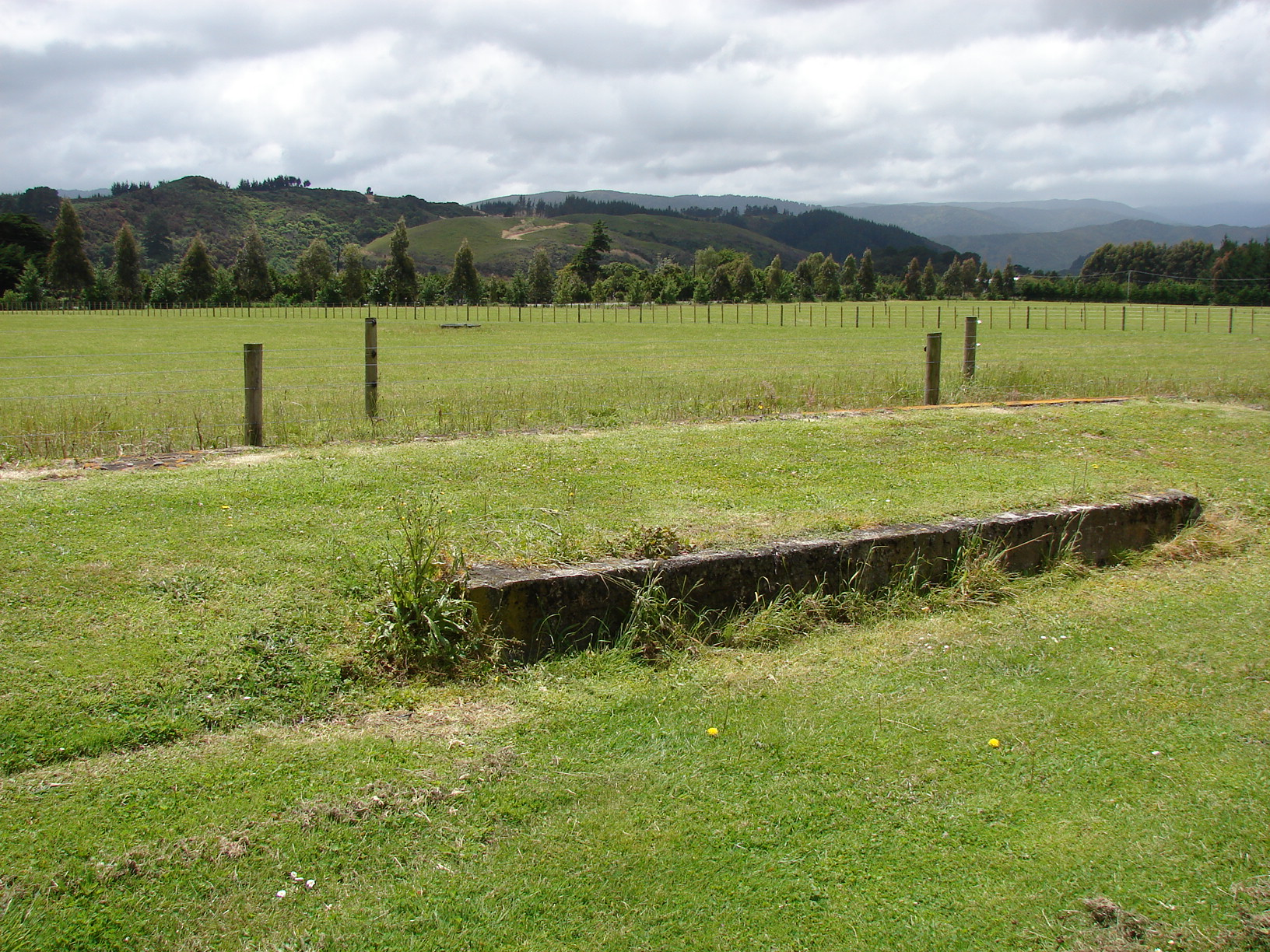 Mangaroa railway station loading bank. Photographed by Matthew25187 on 2006-12-24.